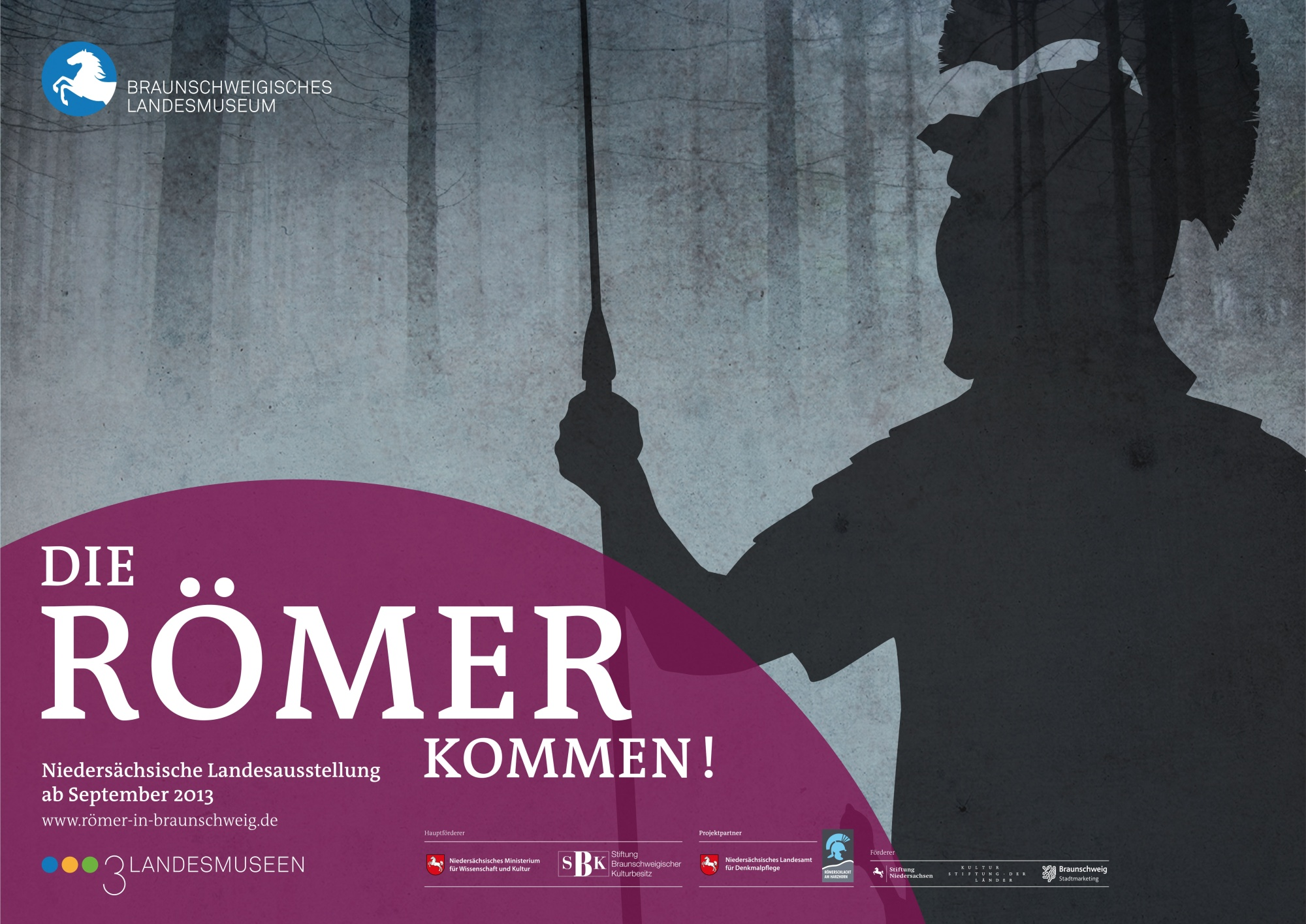 “The Romans Are Coming!” Poster of the “Niedersächsischen Landesausstellung“ 2013 in Braunschweig.